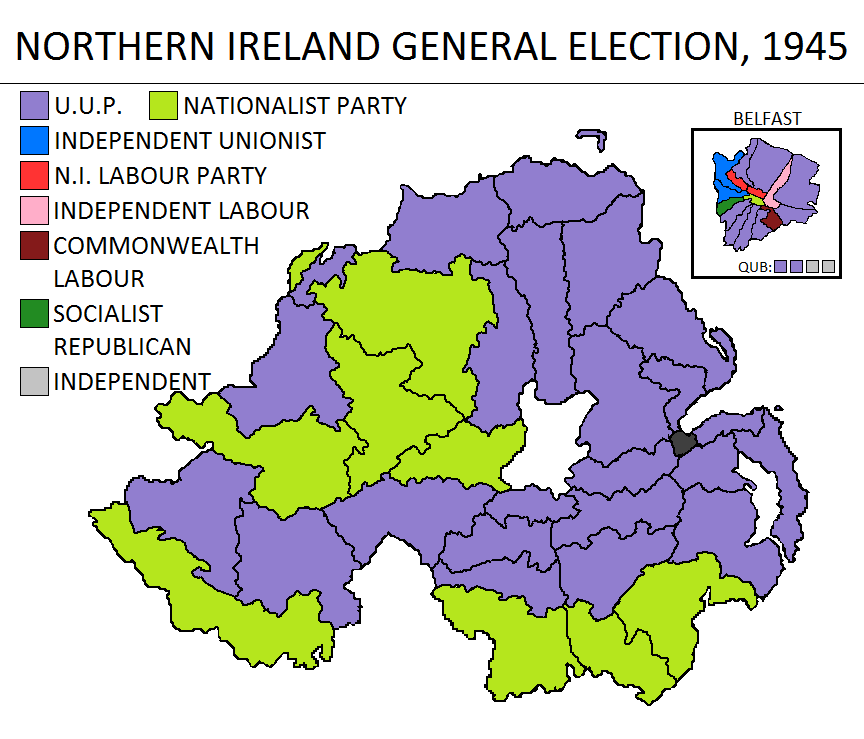 Map showing result of the 1945 Northern Ireland general election.